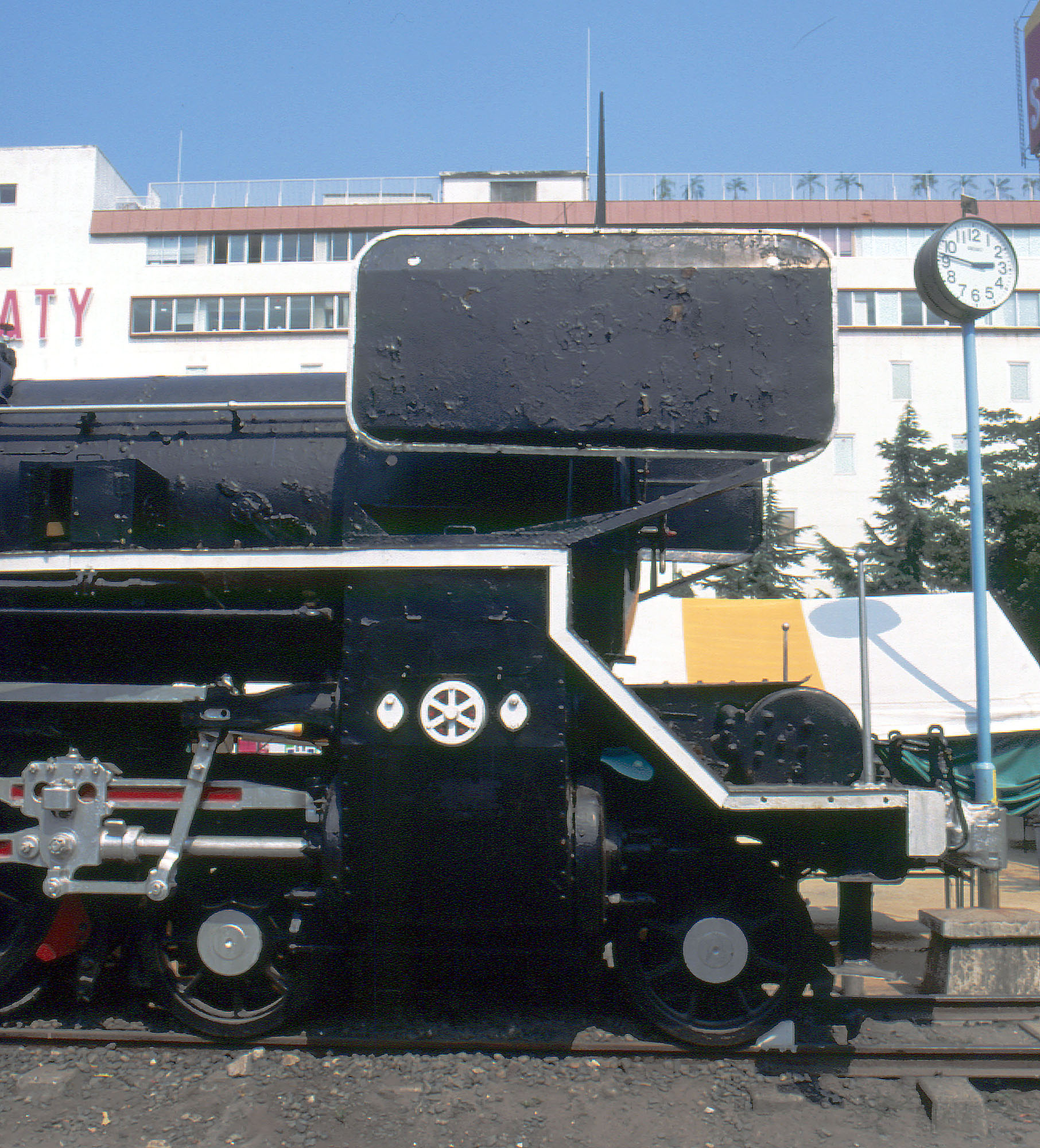 JNR Type C55 Steam Locomotive No.53(46) preserved in Wakakusa park in Ohita city